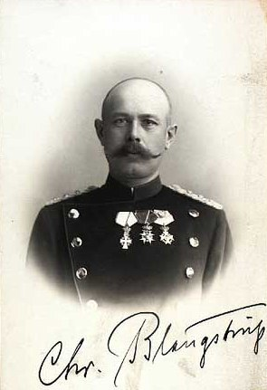 Christian Blangstrup (1857-1926), Danish officer and editor